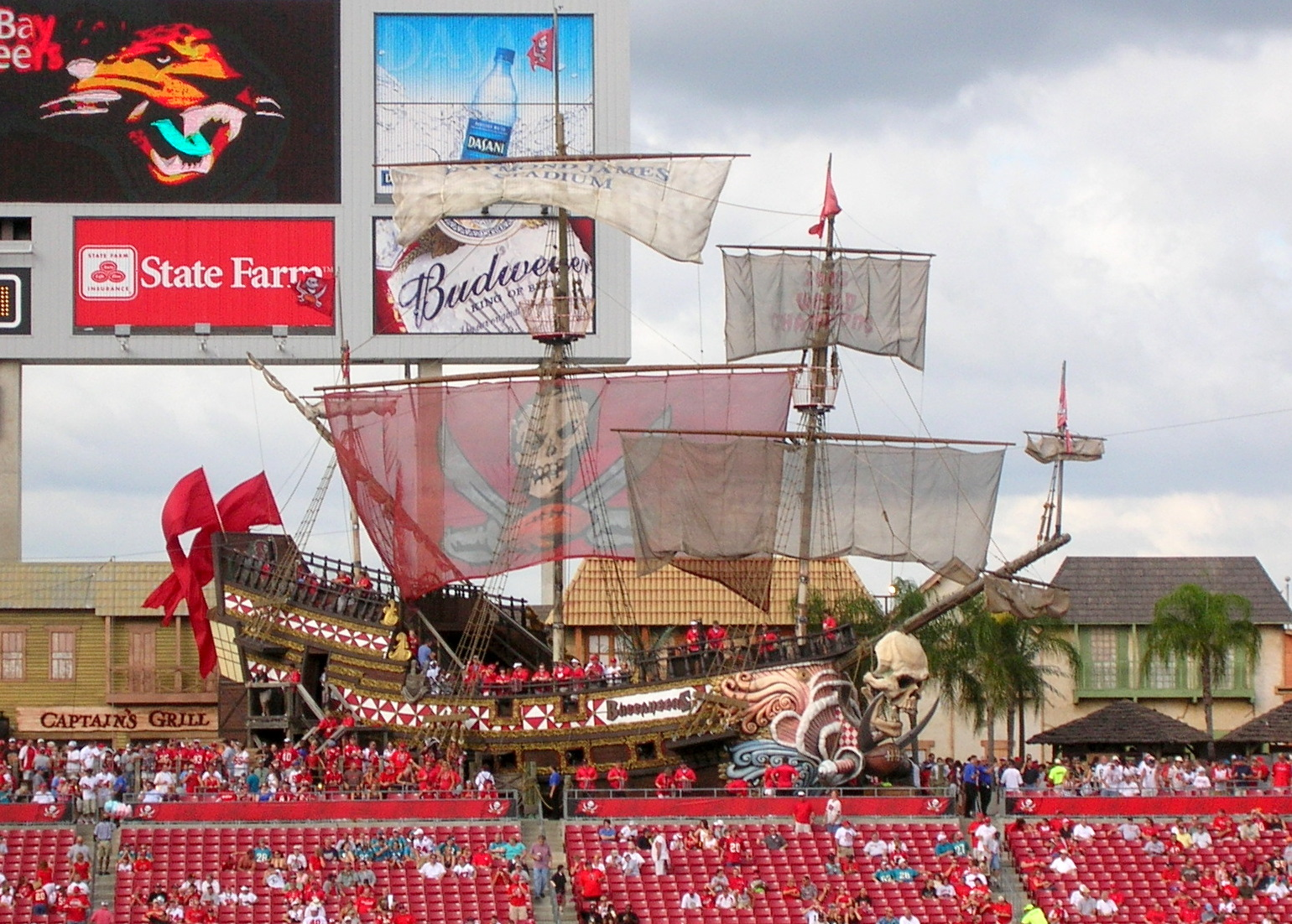 The pirate ship, Raymond James Stadium, Tampa, Florida, USA